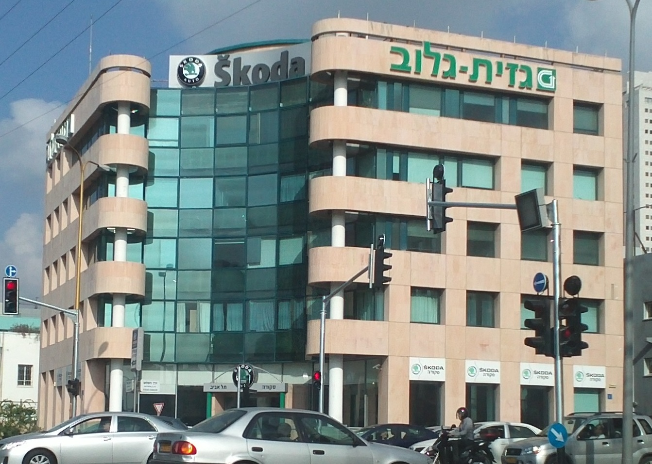 Gazit Globe headquarters, Tel Aviv